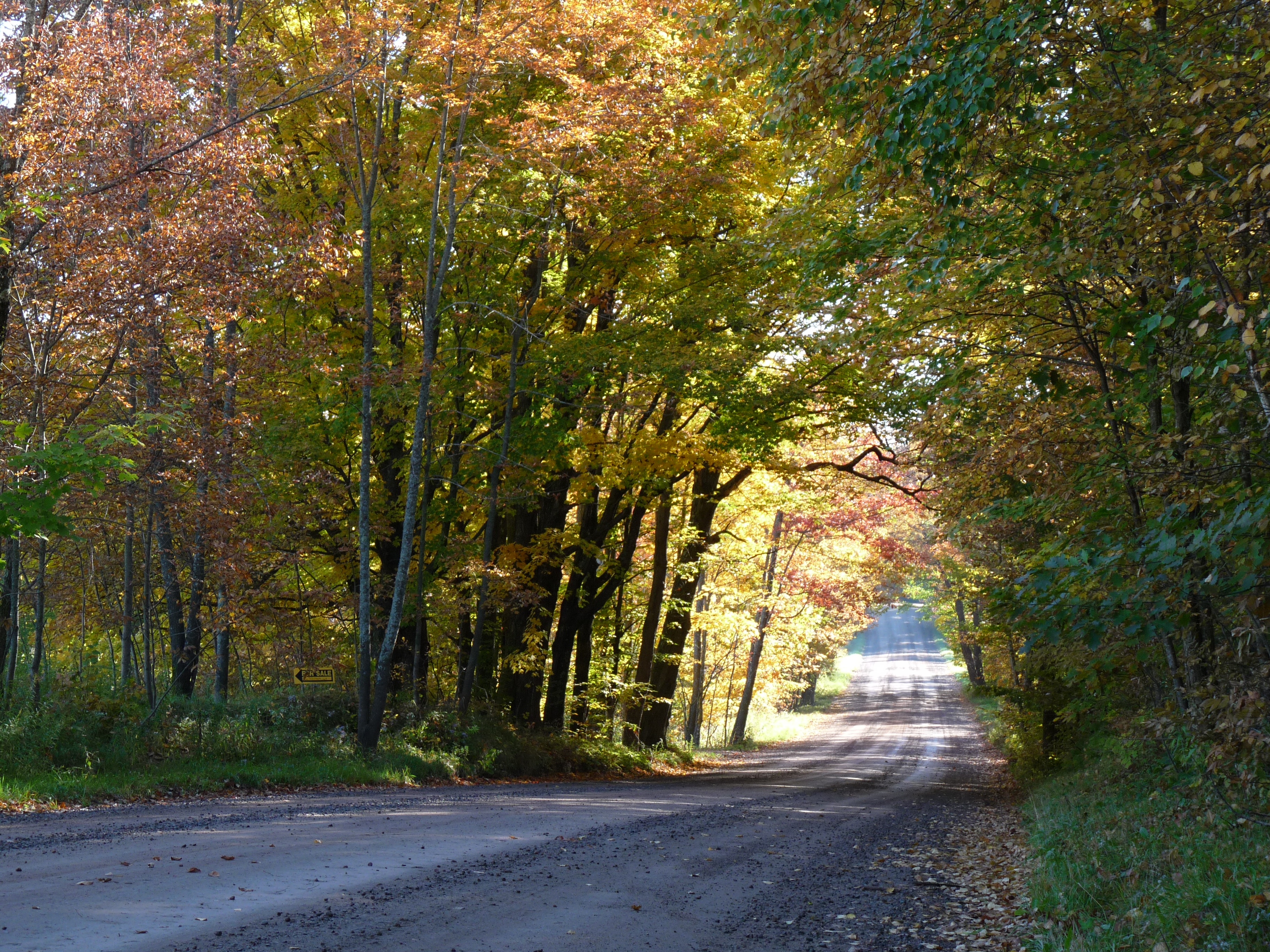 Rustic Road #1 winds up and down hills, through woods, and between lakes north of Medford in north central Wisconsin. Photo is near James Lake and Camp Forest Springs, looking east.